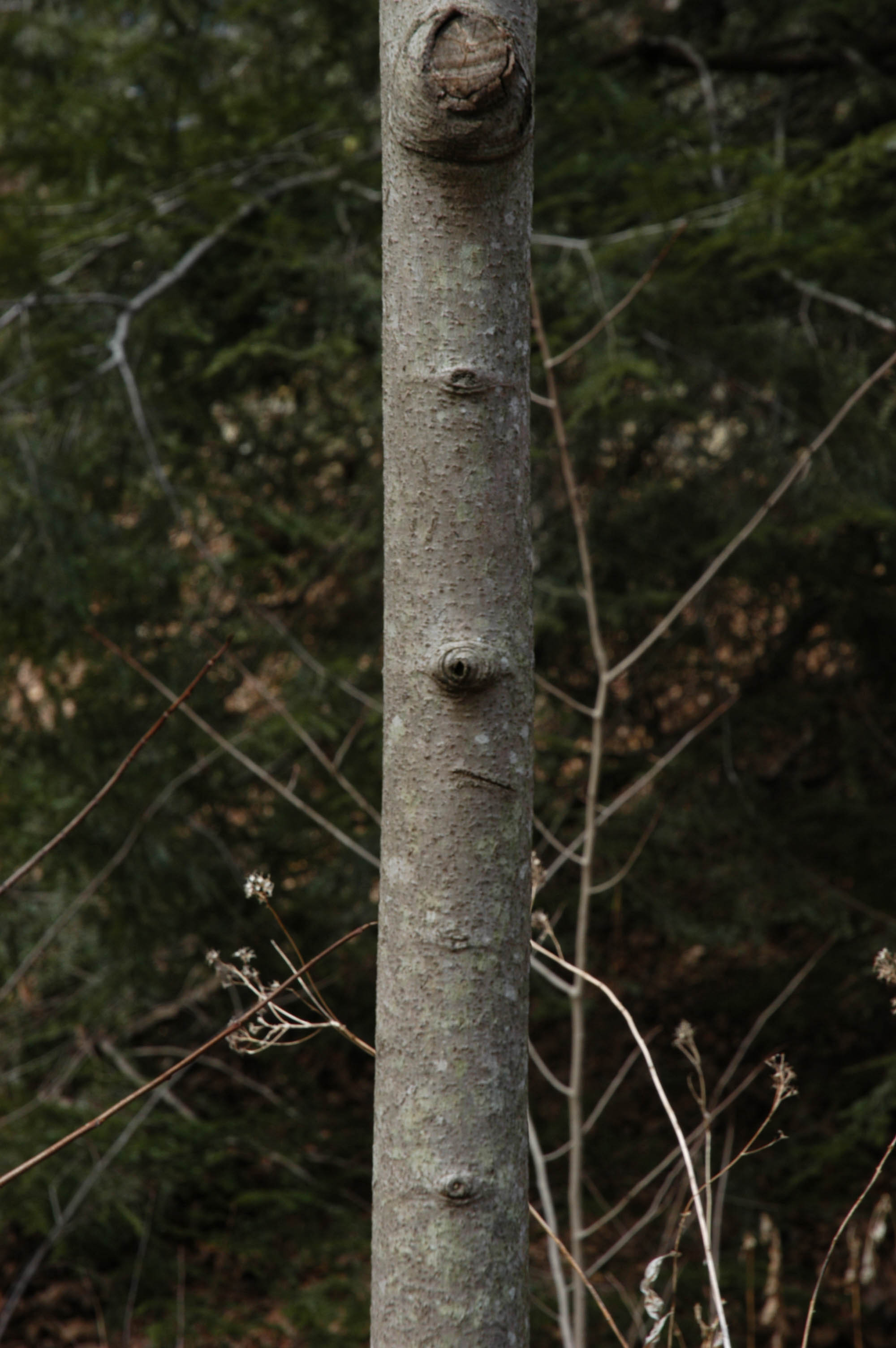 A PawPaw tree at the Asheville Botanical Gardens in wintertime.